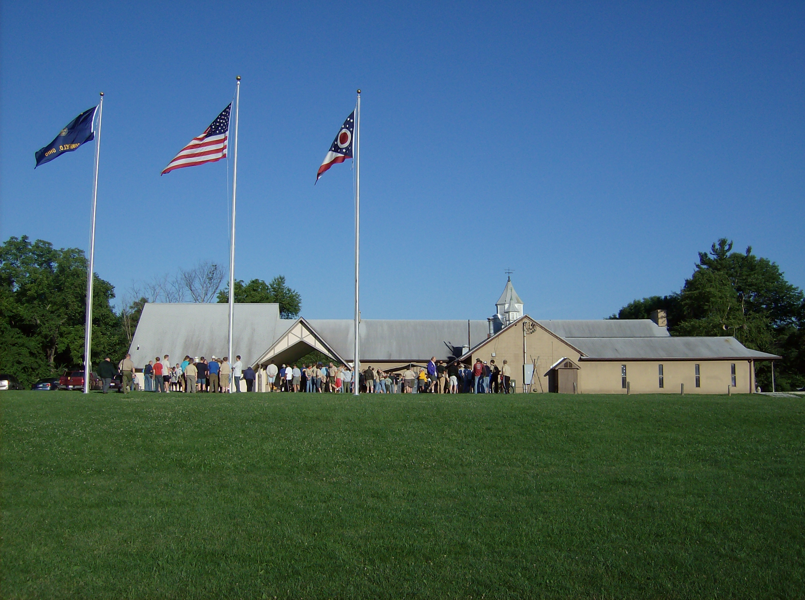 View of the main dining hall at Camp Hugh Taylor Birch, a Boy Scout camp in Miami Township, Greene County, Ohio, United States.